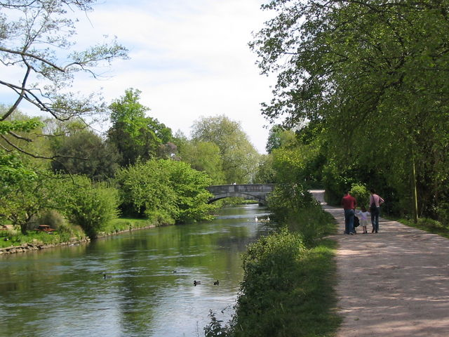 River Test, Romsey. Looking towards the southeast, to the bridge that carries the A3090 into Romsey.